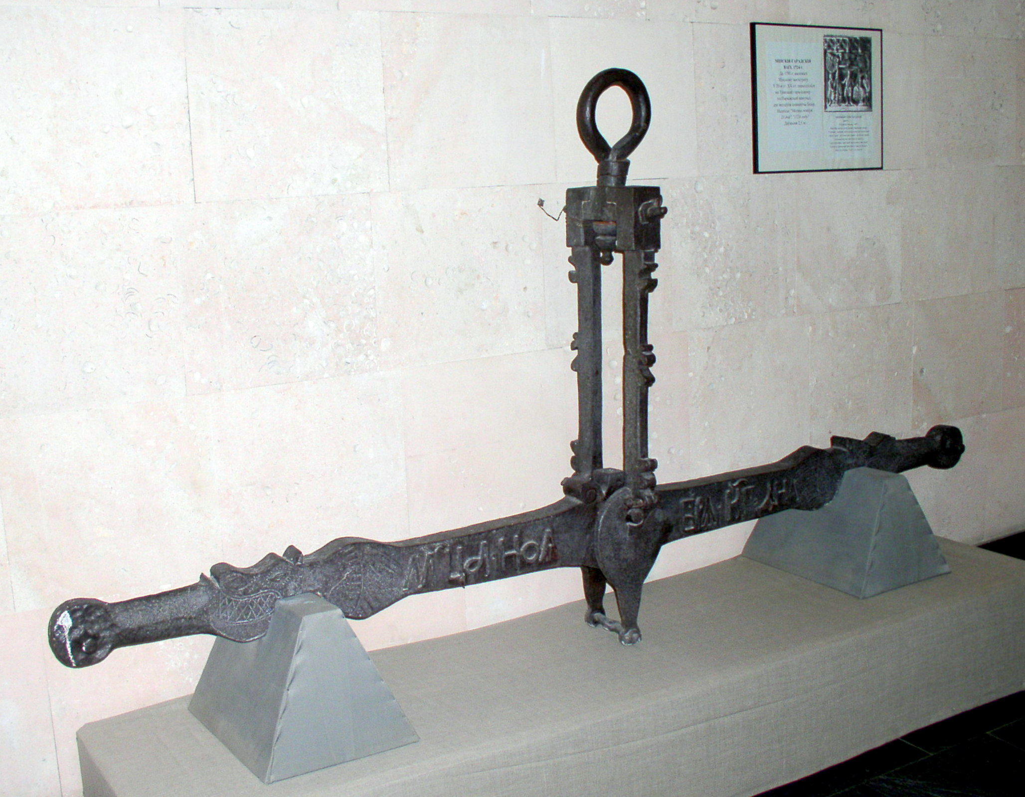 Minsk city scales, 1724. National museum of history and culture of Belarus. Karl Marx street, 12. Minsk, Belarus. Беларуская (тарашкевіца): Менскія гарадзкія шалі 1724 року. Нацыянальны гістарычны музэй Рэспублікі Беларусі (Менск, вуліца Карла Маркса, 12)